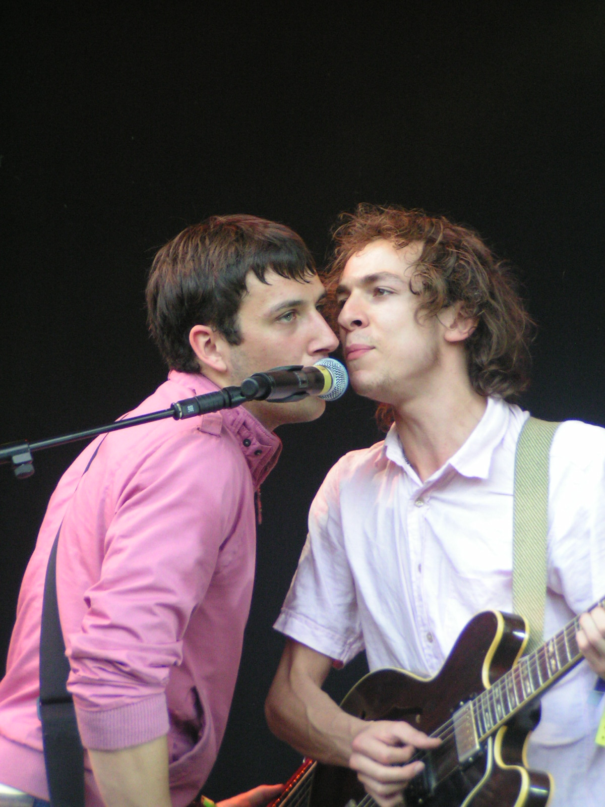 William Rees and Kai Fish from the Mystery Jets @ Indieco Sunday Social